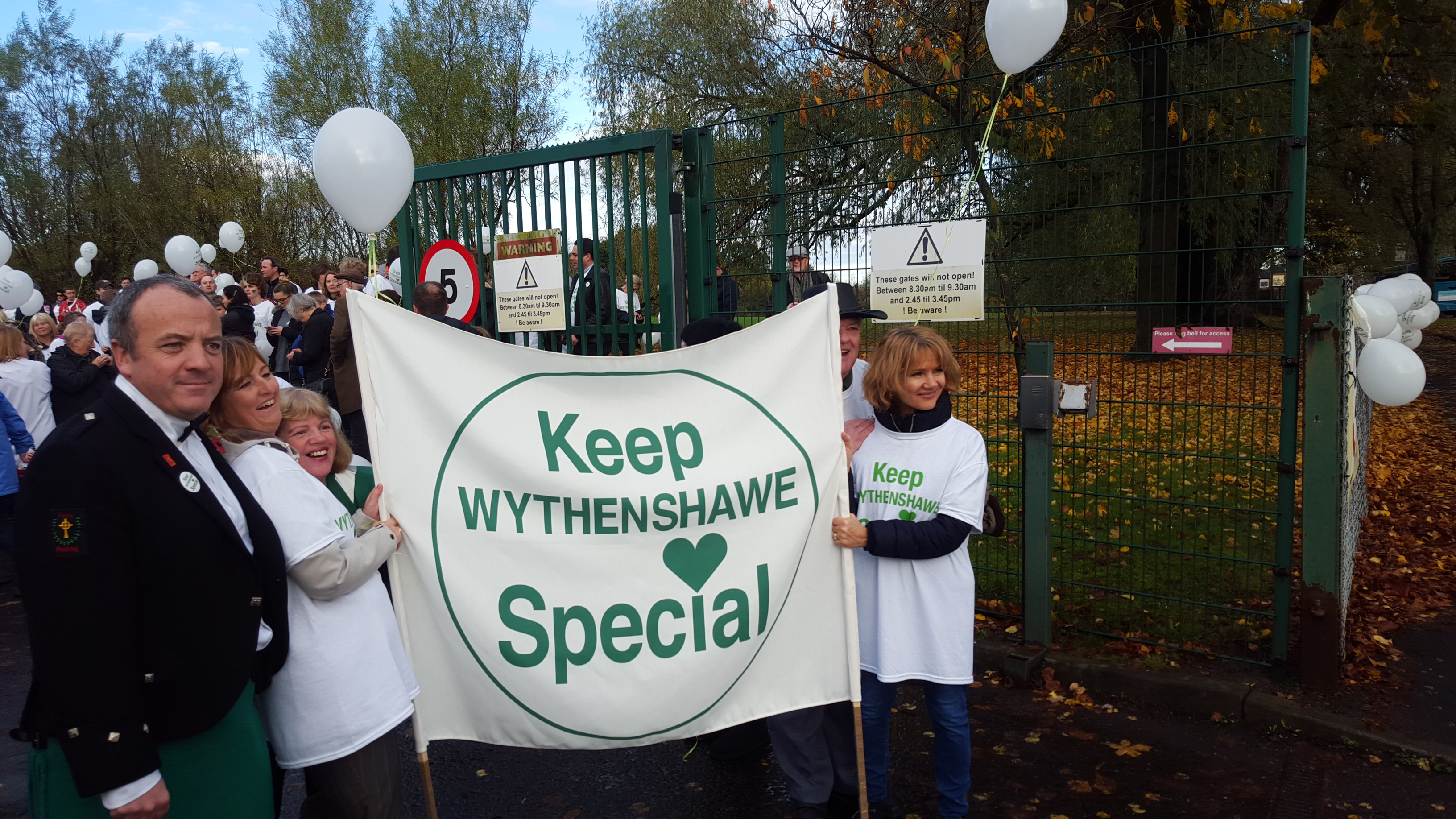 Keep Wythenshawe Special campaign march, November 2015